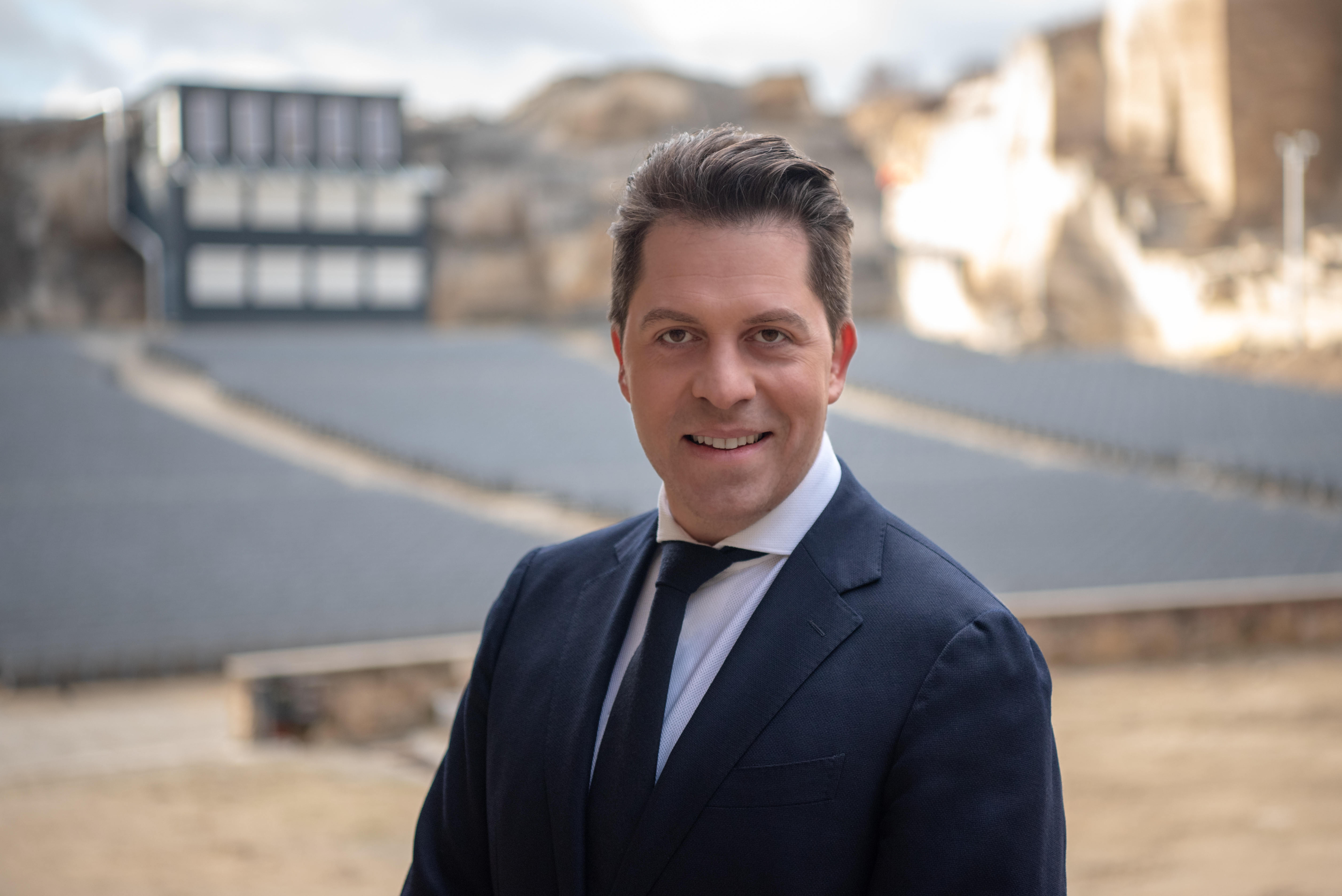 Esterhazy Betriebe GmbH